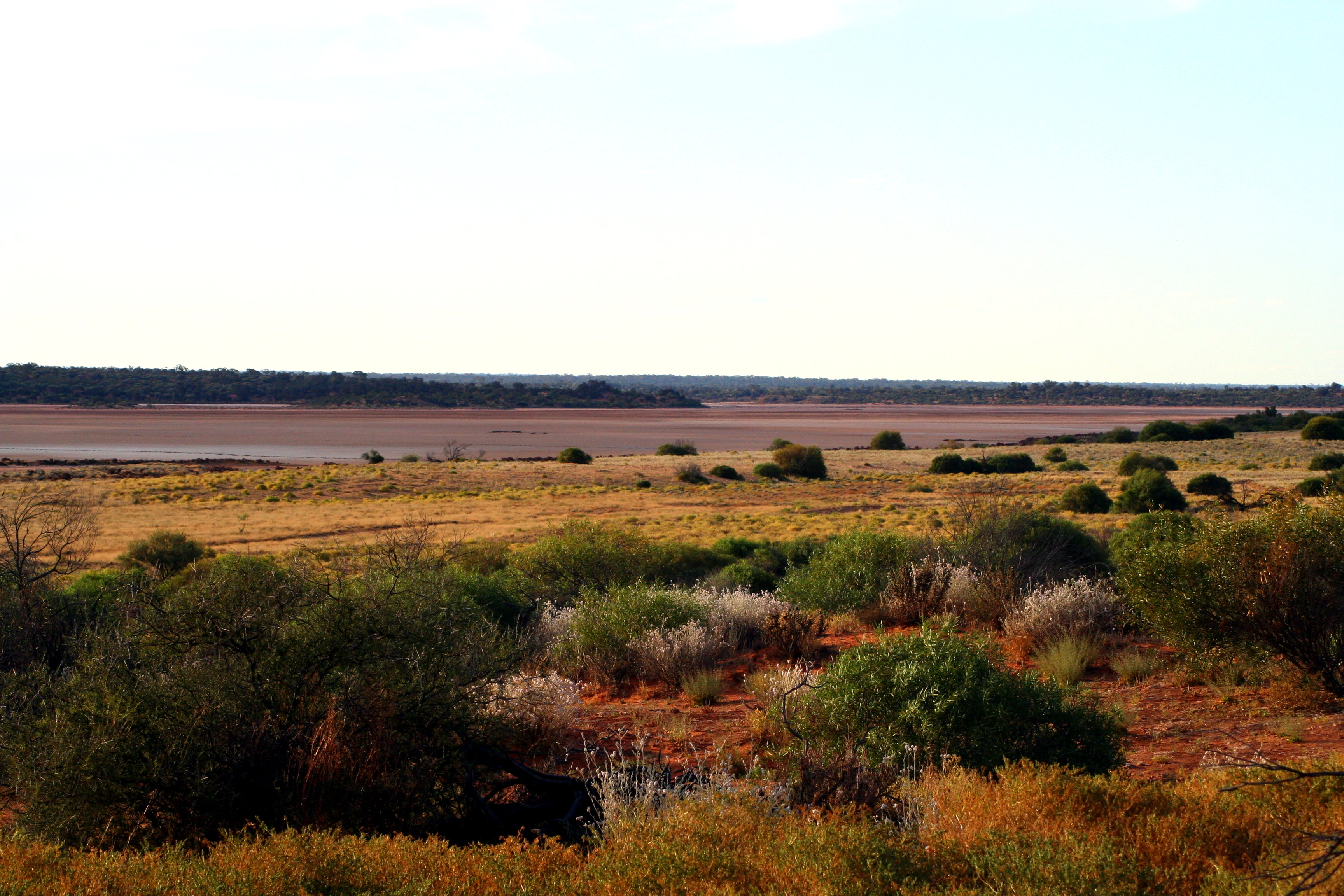 Serpentine Lakes, South Australia. Salt Lakes in the Great Victoria Desert near the Western Australian border